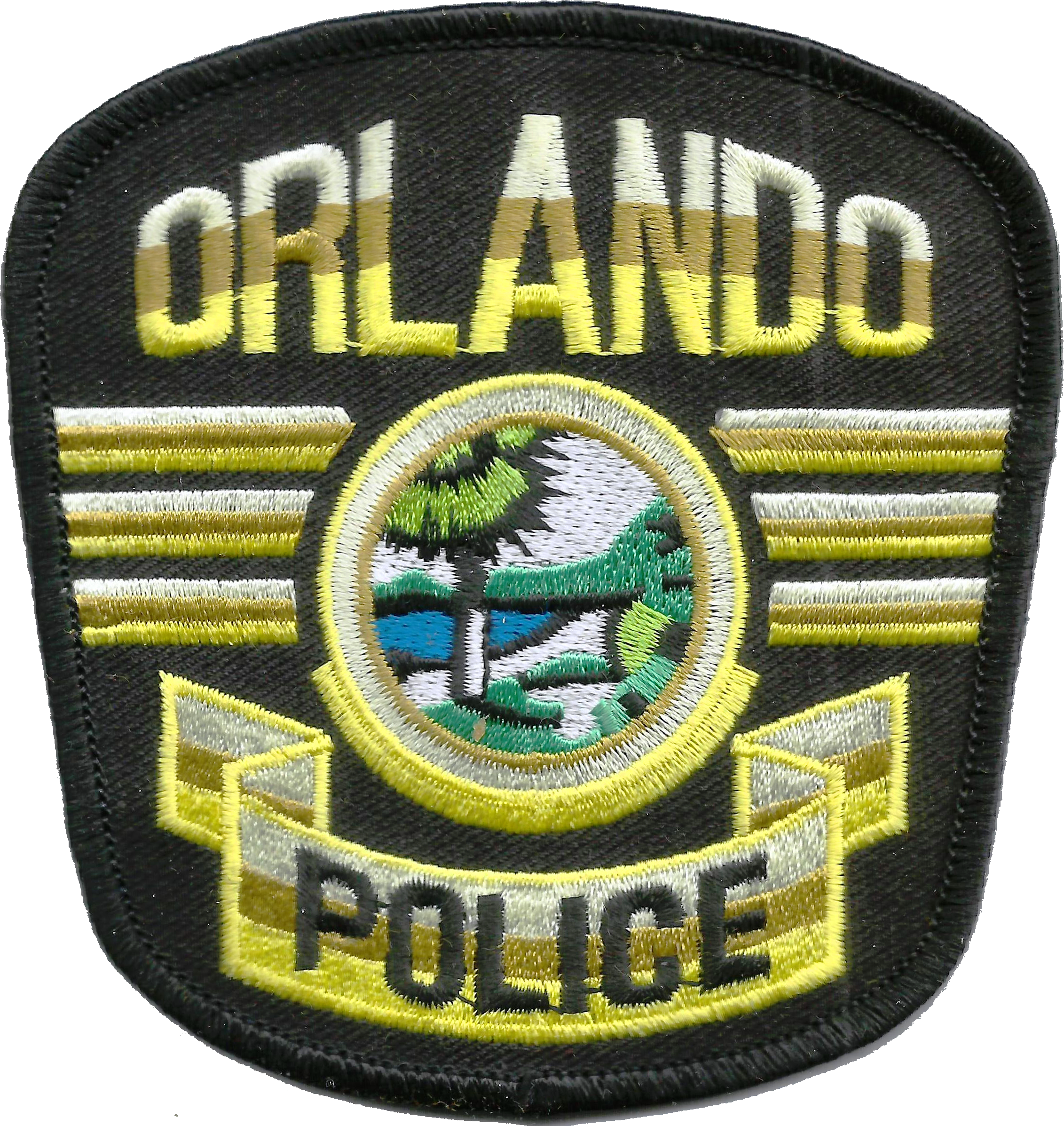 The official patch of the Orlando, Florida Police Department. This patch is taken from the International Police Caps Collection.